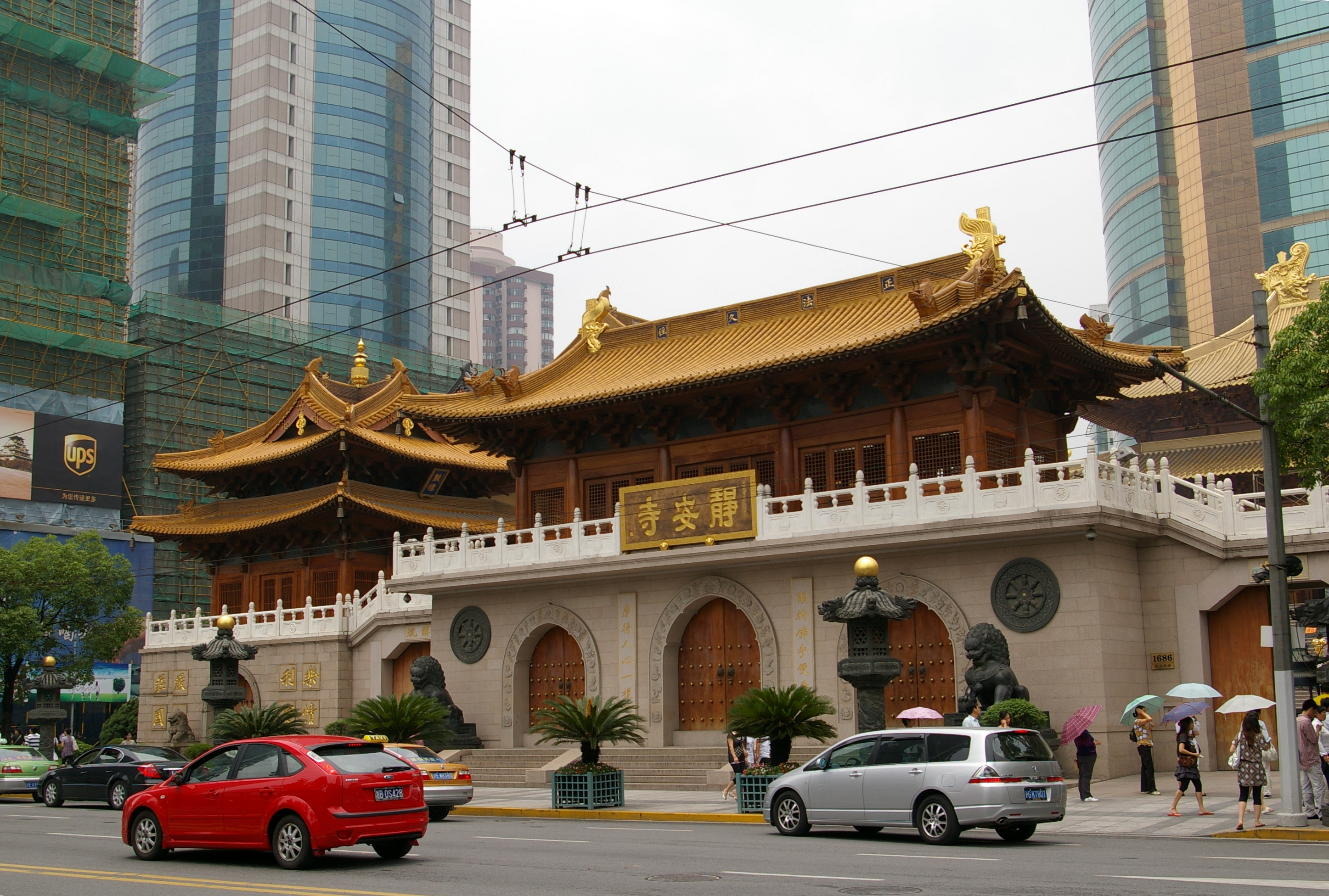 Jing'an Temple in Shanghai